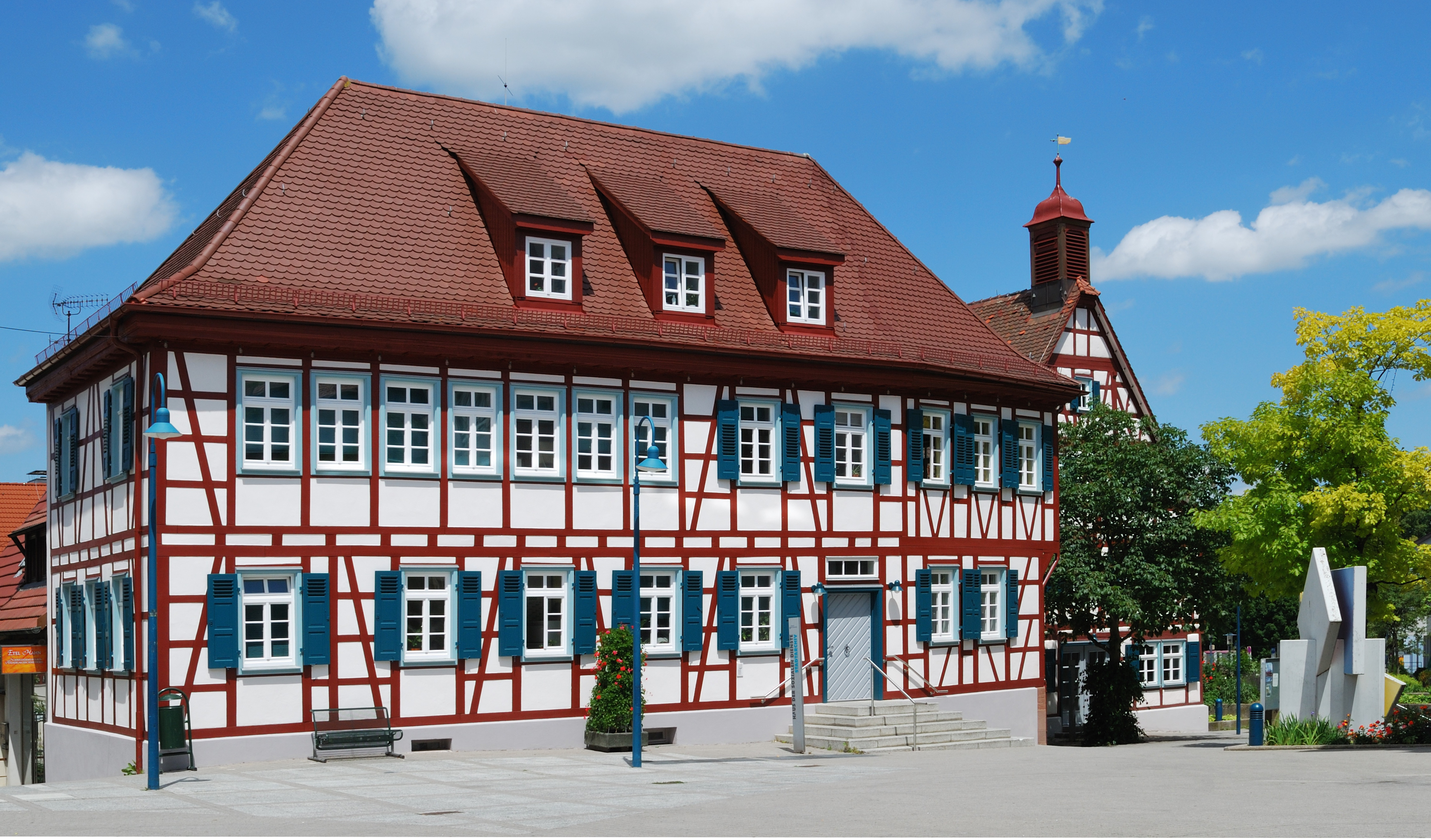 Former schoolhouse Am Laien in Ditzingen, Baden-Württemberg, Germany. The timber framed building from 1759 was reconstructed in 1990/92 and serves today as the town archive and the "House of Social Services".